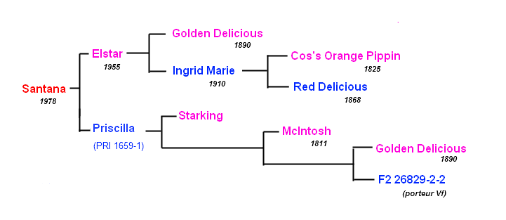 Santana pedigree